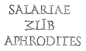 section of CIL V, 7107=EDR 113963 from Exempla scripturae epigraphicae latinae , showing inverted M (ꟽ) as a rotated M.